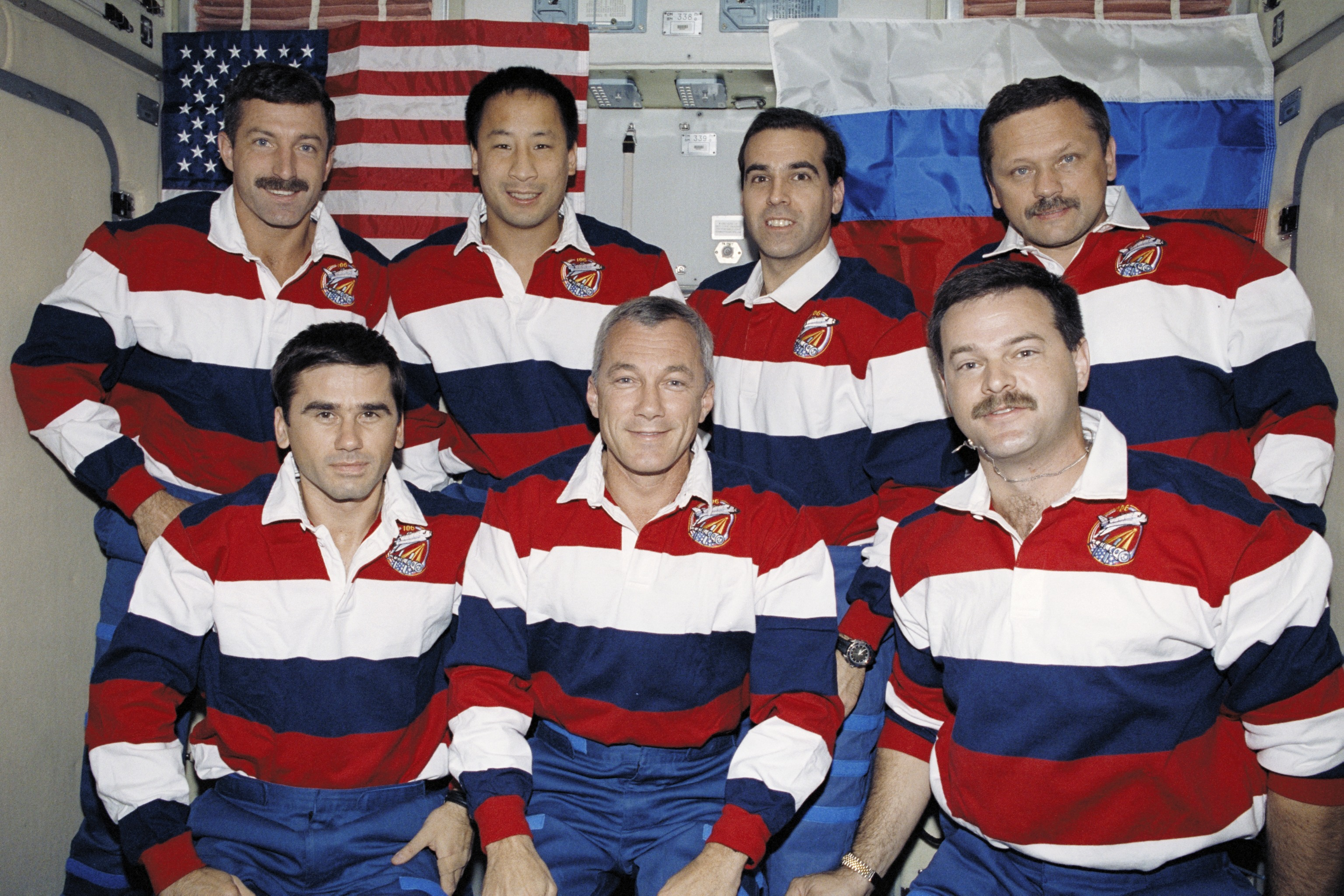 Five astronauts and two cosmonauts pose for the STS-106 version of the traditional inflight crew portrait. Though the tradition is long standing, this portrait represents a relatively new element as it was taken onboard the International Space Station, docked for a few days with the Space Shuttle Atlantis. In front, from the left, are cosmonaut Yuri I. Malenchenko, mission specialist; Terrence W. Wilcutt, mission commander; and Scott D. Altman, pilot. In back are, from left, astronauts Daniel C. Burbank, Edward T. Lu and Richard A. Mastracchio, along with cosmonaut Boris V. Morukov. Morukov and Malenchenko represent the Russian Aviaition and Space Agency.